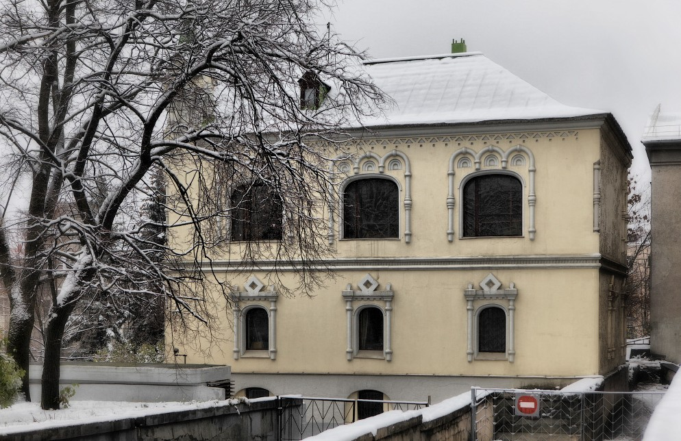 House of artists, Minsk, Belarus.